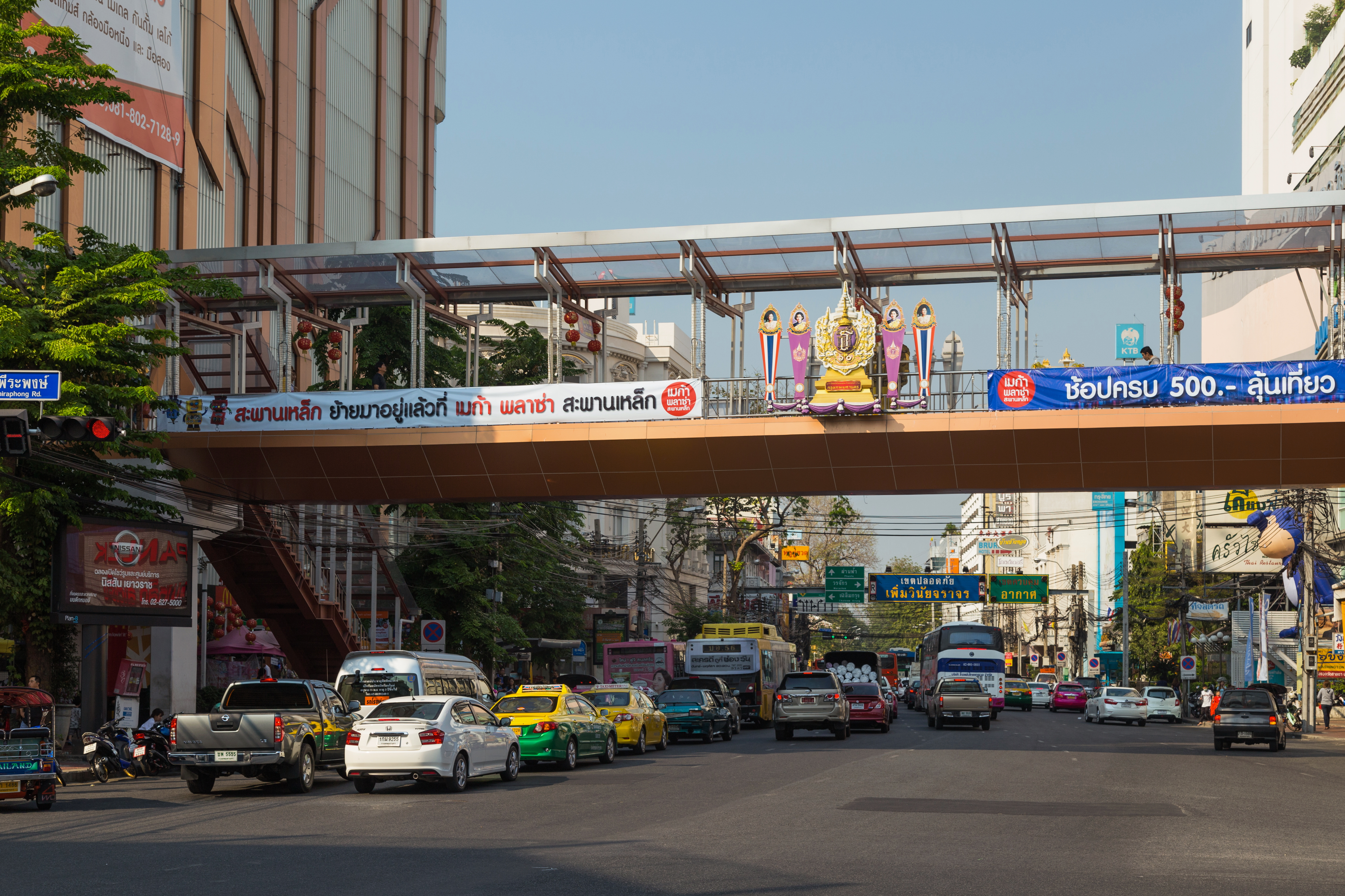 Overpass footbridge at crossroads. Phra Nakhon District, Bangkok, Thailand.